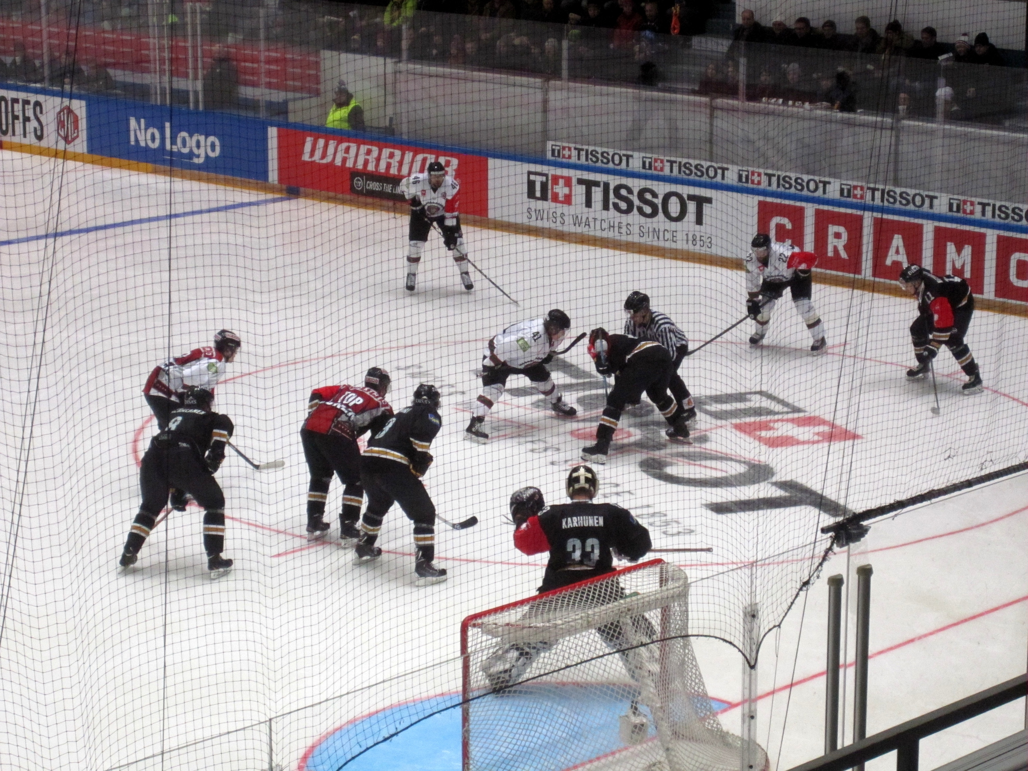 Kärpät vs Frölunda HC, a CHL playoff game in Oulu.